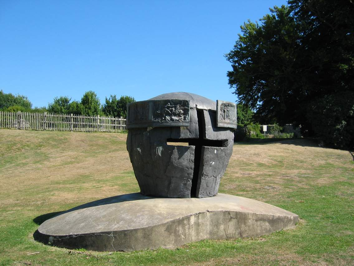 Sculpture: Battle Monument (1964), Lewes; by Enzo Plazotta